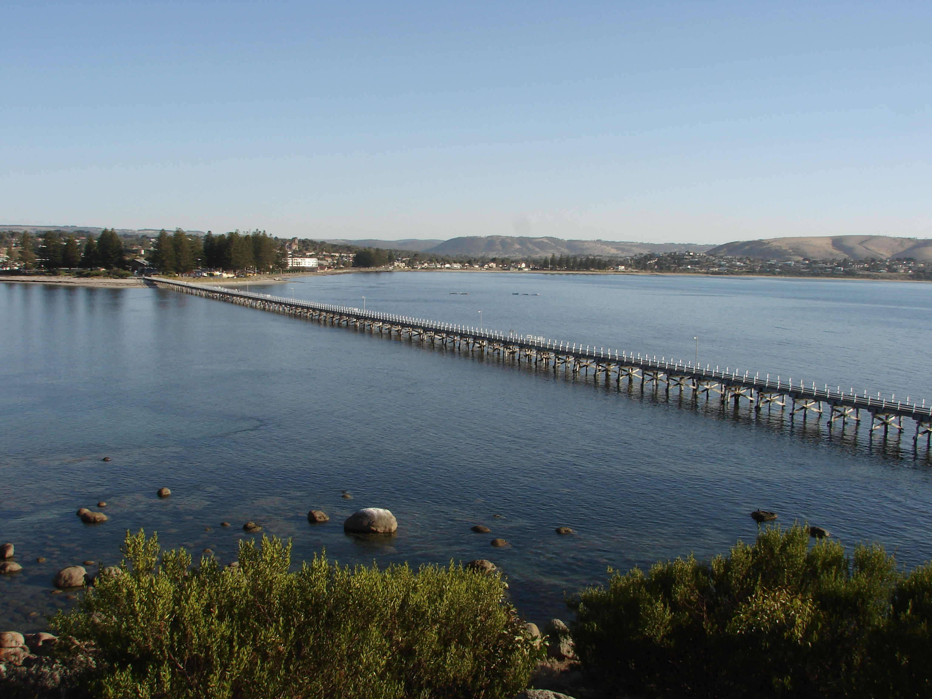 Victor Harbor, Southern Australia, seen from Granite Island